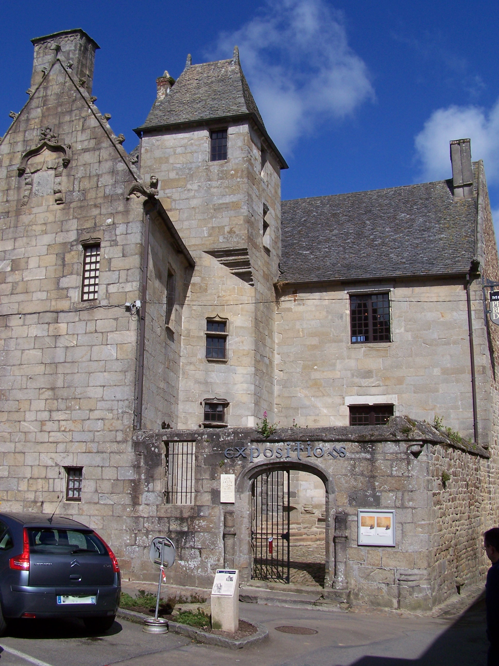 Maison prébendale de Saint-Pol-de-Léon datant de la Renaissance